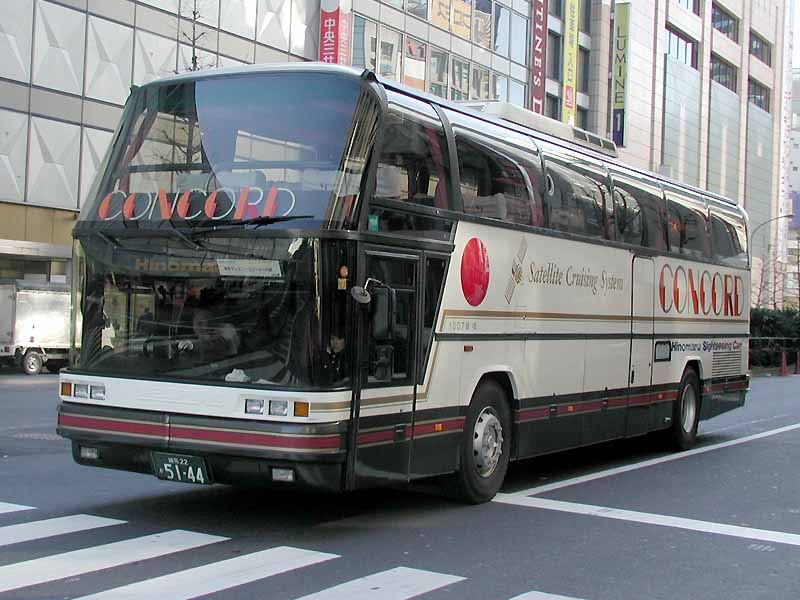 Hinomaru motorcars touring coach "Concord". In body side,letterd "Satelite Cruising System" means "Equipped GPS Car Navigation". Model: Neoplan Spaceliner N117/2 License plate:TKN22 KA5144 （練馬22か5144） Own number: 1007 Place: Shinjuku station west, Shinjuku, Tokyo Japan